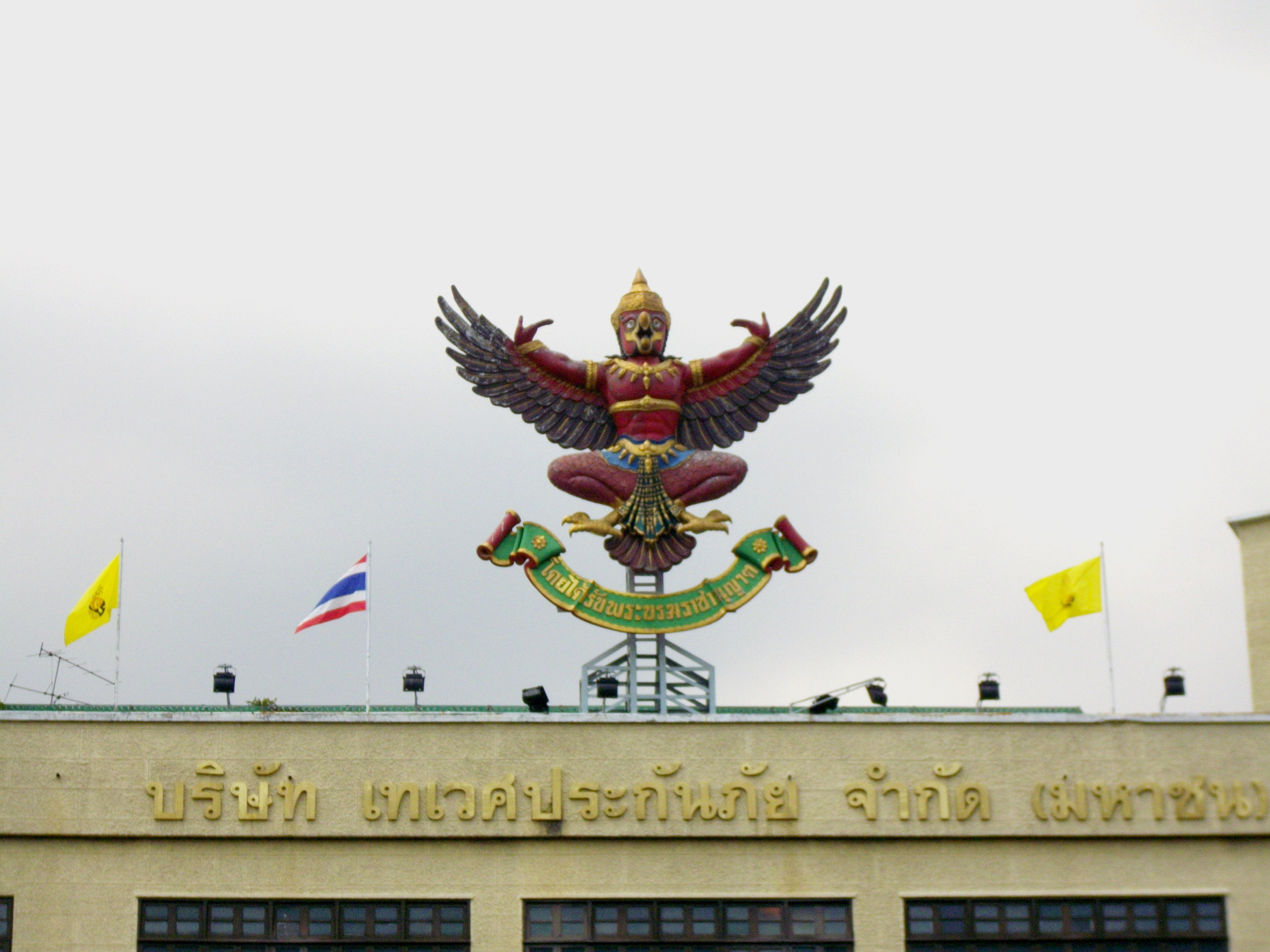 Garuda symbol for royal warrant at Deves Insurance Building, Rajadamnoen Klang Avenue, Bangkok